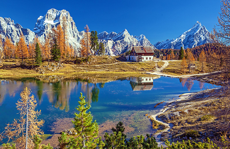 Federa Lage - Dolomites